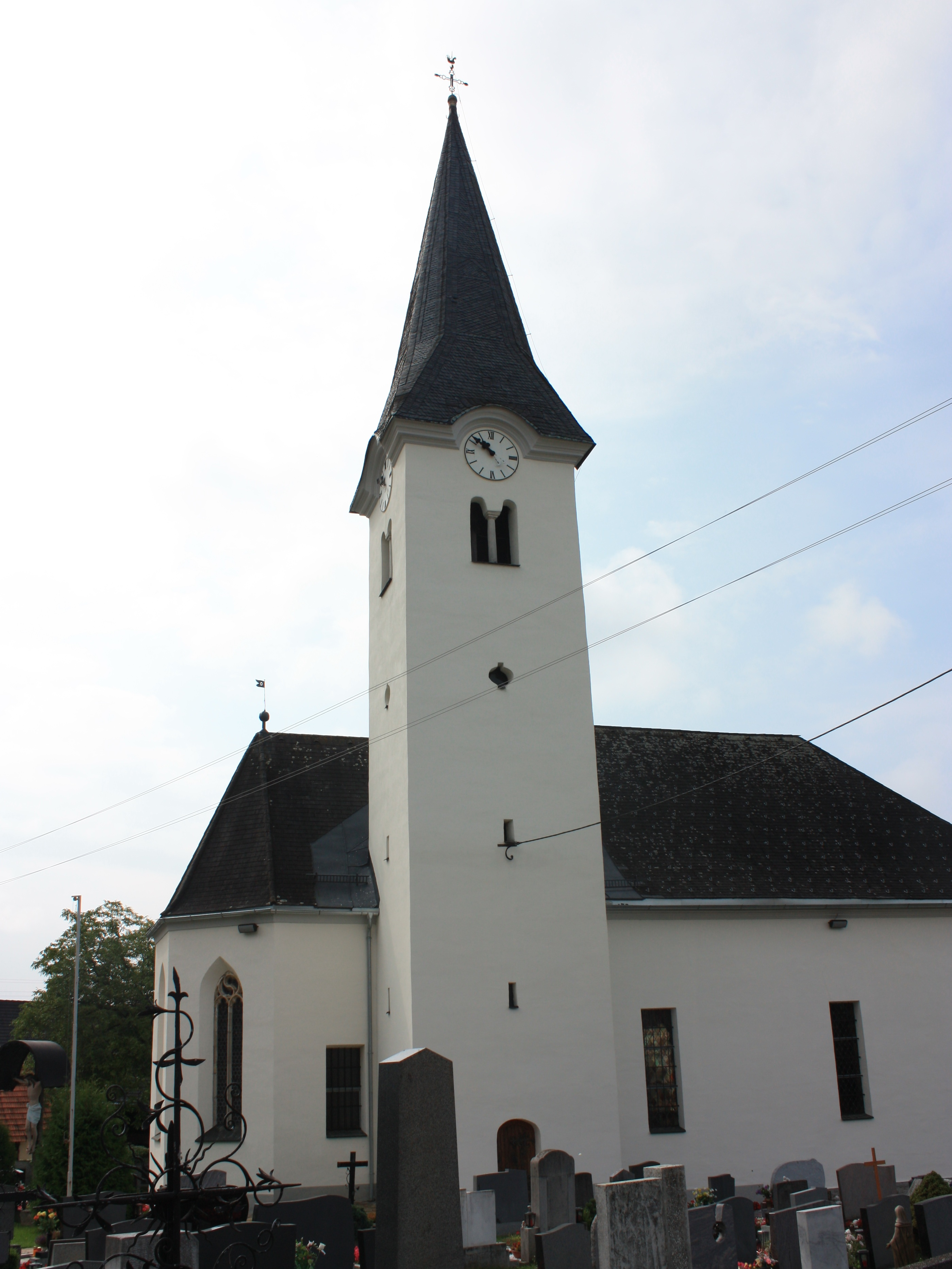 Parish church "Saint Ulrich" Locality: St Ulrich an der Goding Community:Sankt Andrä